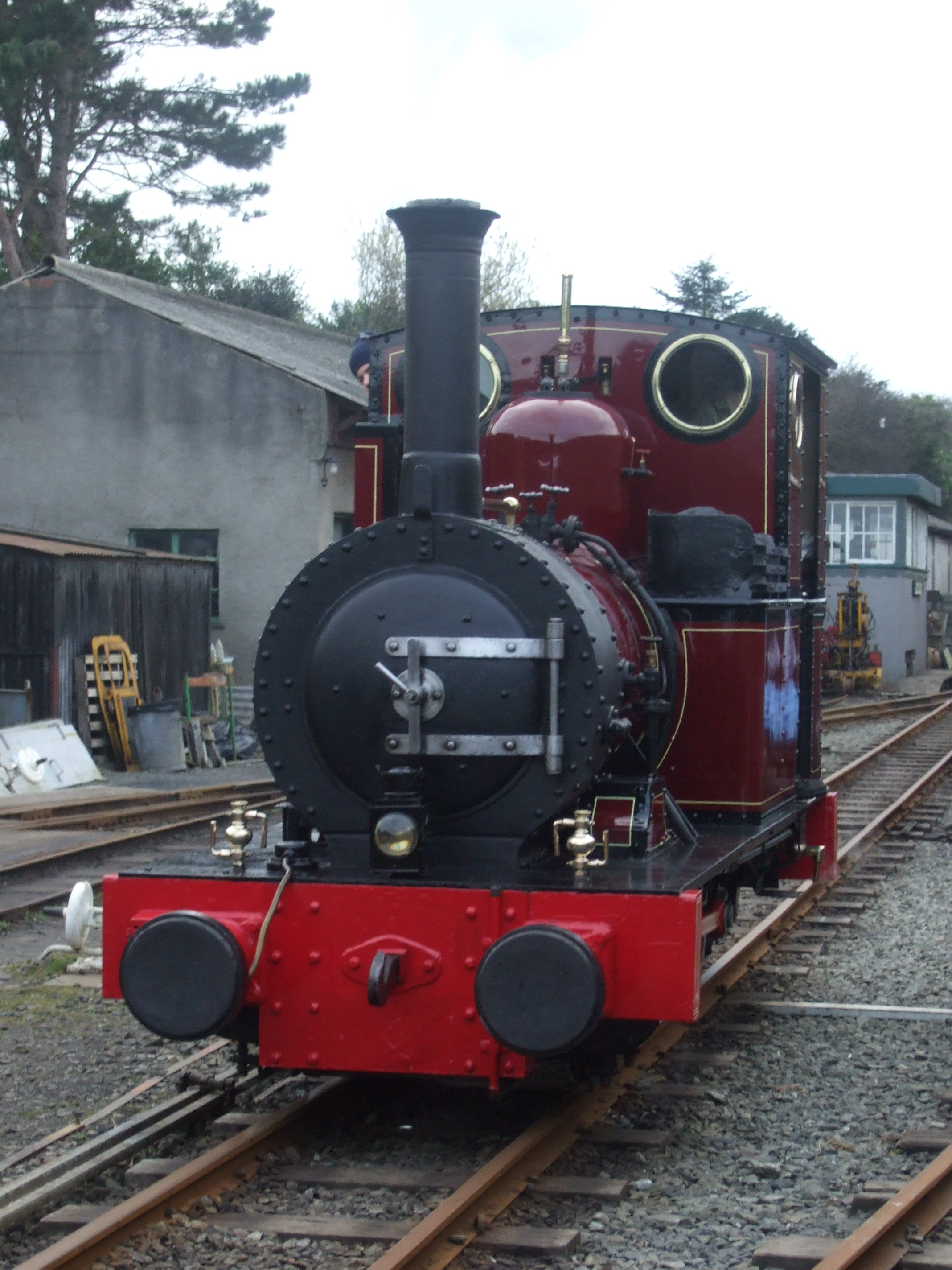 Talyllyn Railway locomotive Dolgoch on her first day of service in maroon livery